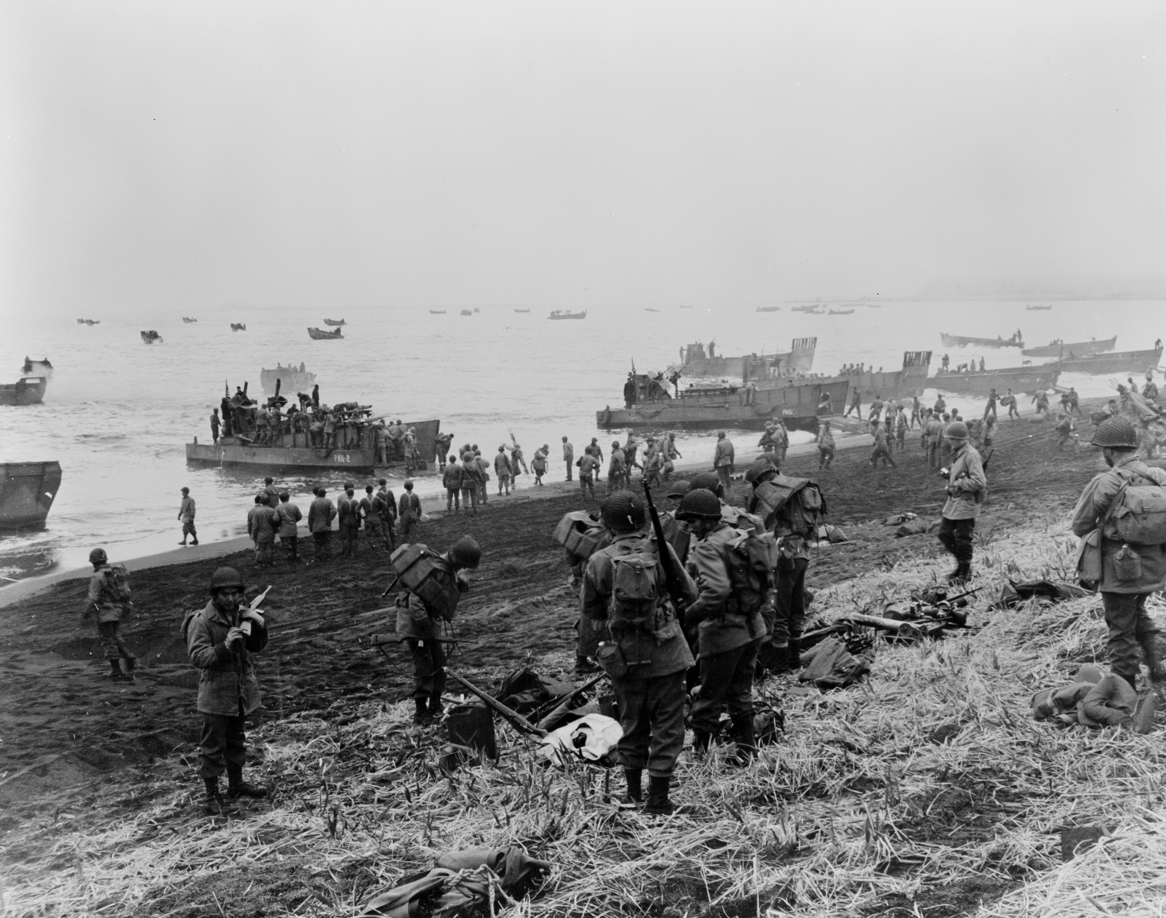 U.S. soldiers of the southern landing force on the beach at Massacre Bay, Attu island, Alaska (USA), during the Battle of Attu, 11 May 1943. The landing craft in the foreground belong to the attack transport USS Heywood (APA-6).